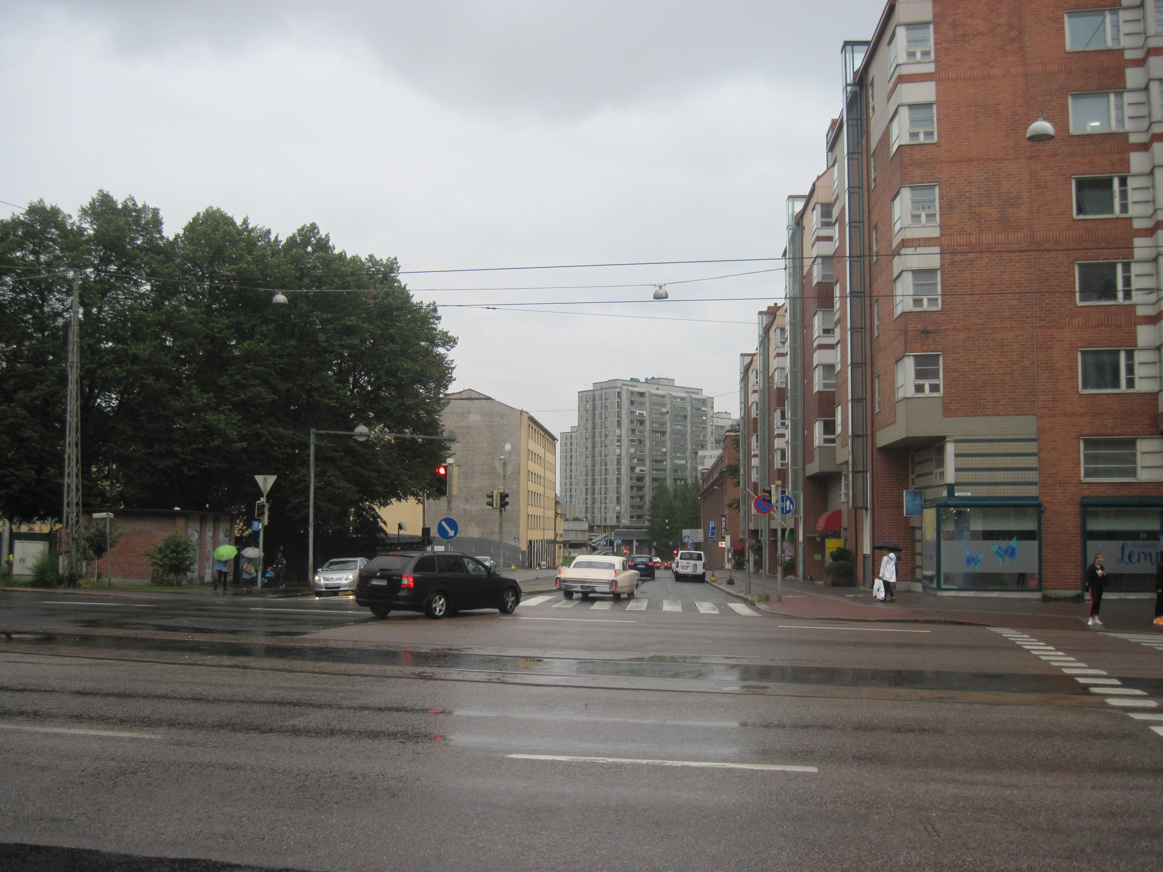 Haapaniemenkatu in Helsinki, Finland